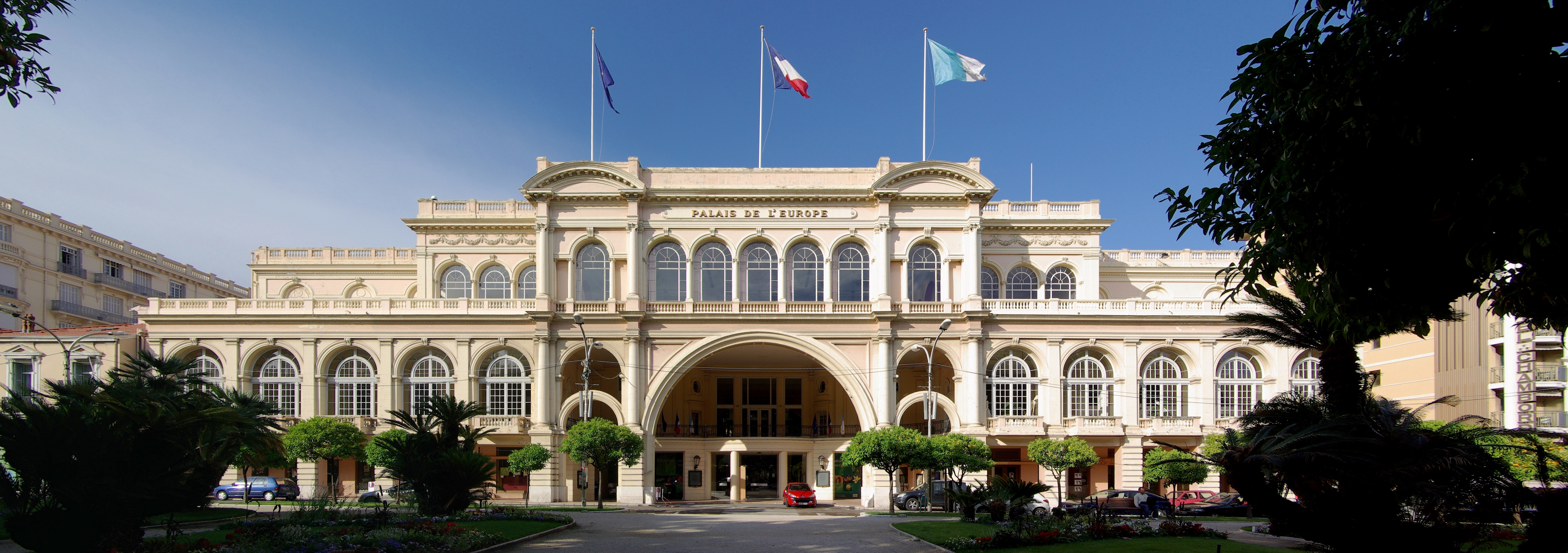 France, Menton, Palais de L'Europe